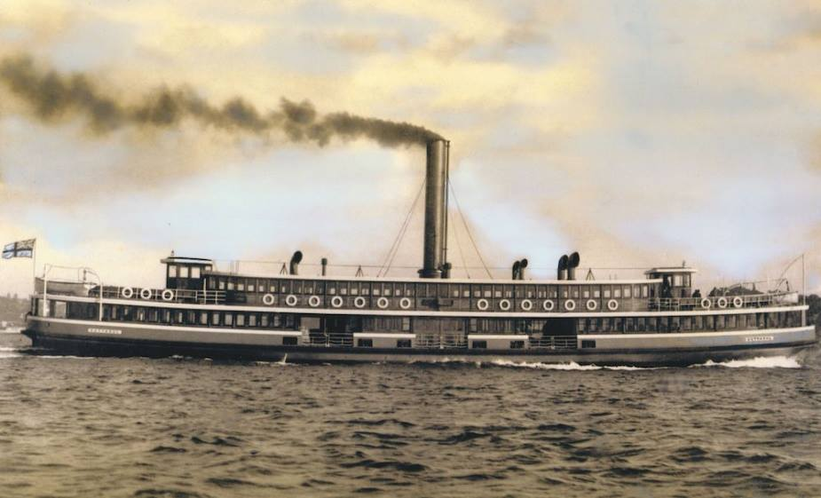 Sydney Ferries Limited K-clas steamer, Kuttabul on Sydney Harbour. Commissioned in 1922, requisitioned by navy for World War 2. Sunk but Japanese submarines then broken up.